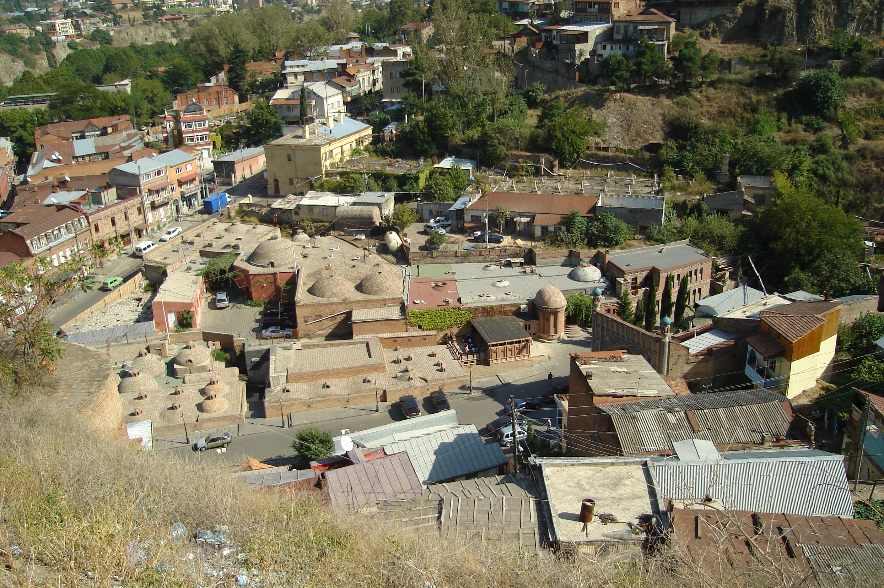 Abanotubani - old baths in Tbilisi